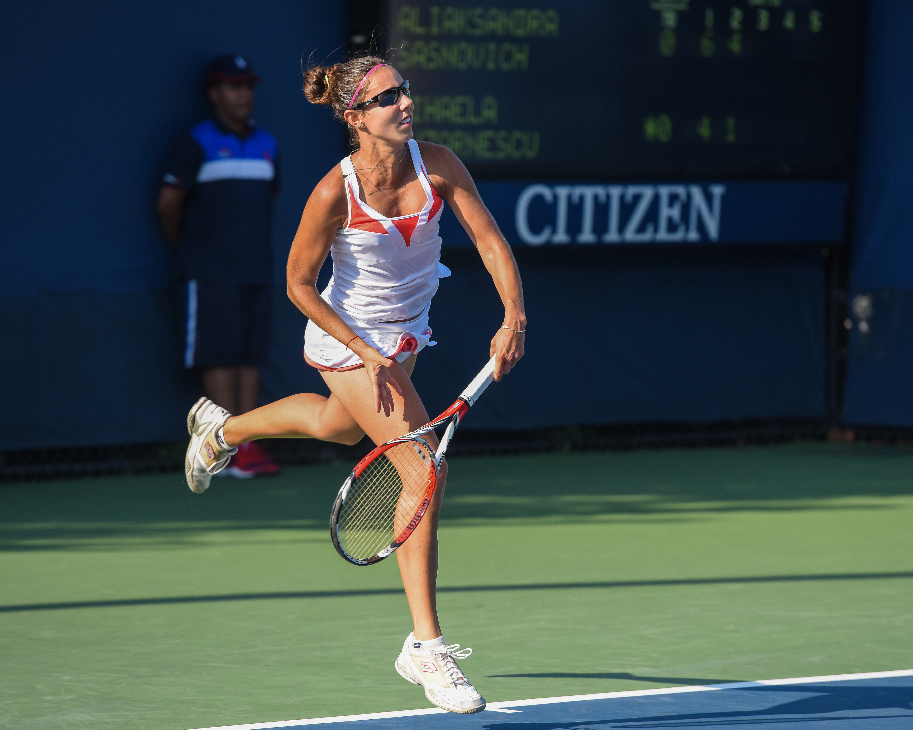 August 25, 2015 Court 14 Flushing, NY